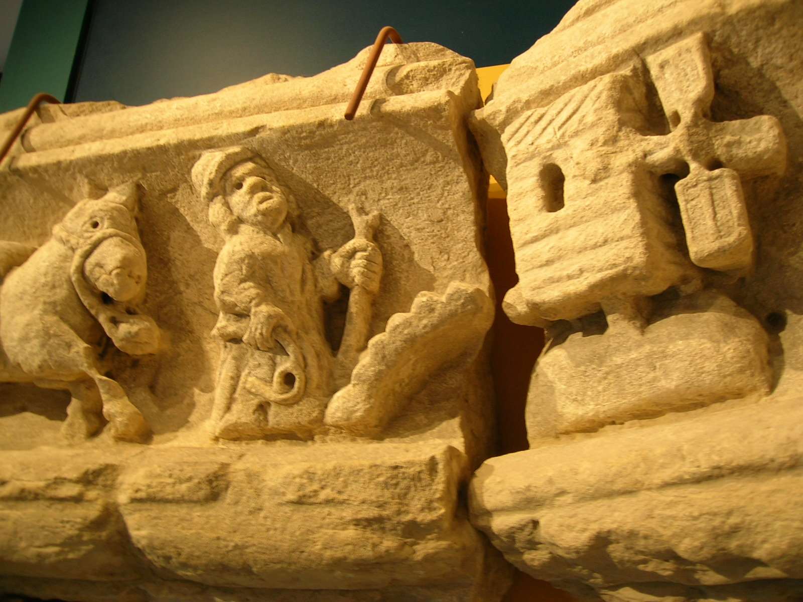 Rievaulx Abbey: carving of windmill